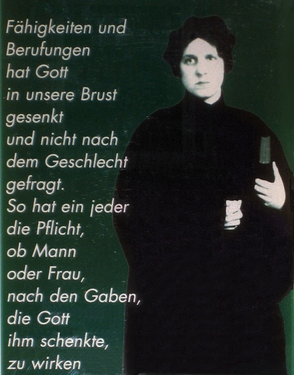 Memorial tablet for Regina Jonas, first woman rabbi ever. Berlin, Krausnickstr. No. 6. Detail.